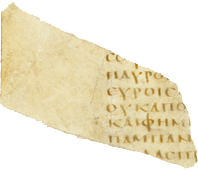 Fragment from a vellum codex of Euripides Medea, from the 4th-5th century CE. Found at Arsinoe in 1888 by Flinders Petrie.